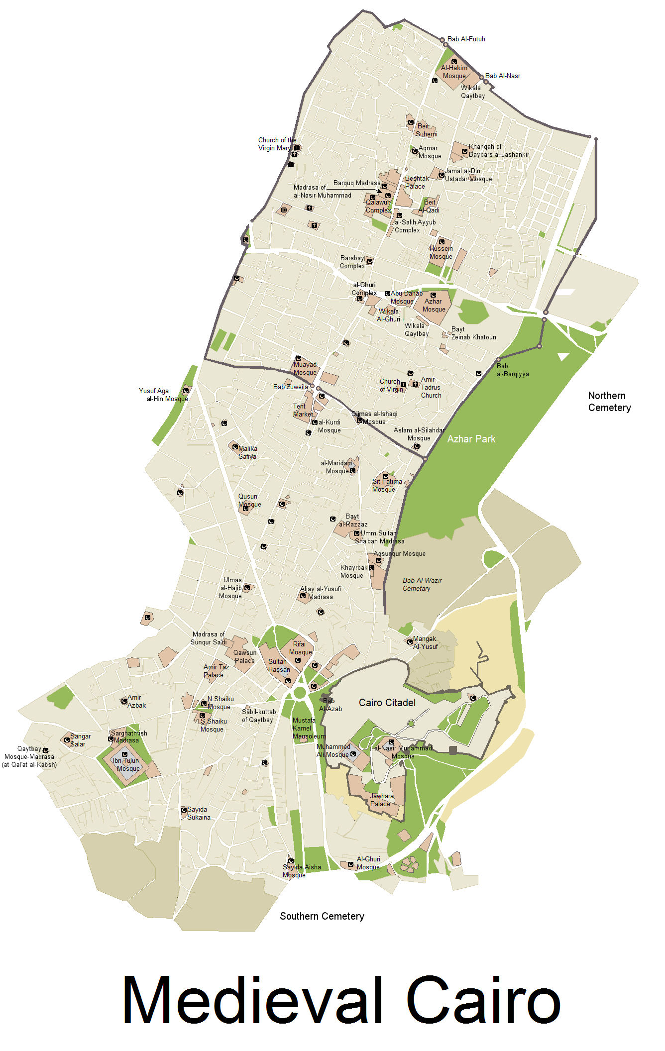 A map of historic Cairo and its monuments, overlaid on the modern road grid. Changes from original version: fixed name and location errors, and fixed topography in a few key areas where Google Maps misrepresents the actual street layout. (PS: Unfortunately it was accidentally saved in jpeg instead of png during editing, which disturbed the quality of the image slightly on close-up compared to the original version.)